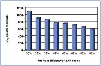 Graph to show relationship between power plant efficiency and carbon dioxide emissions